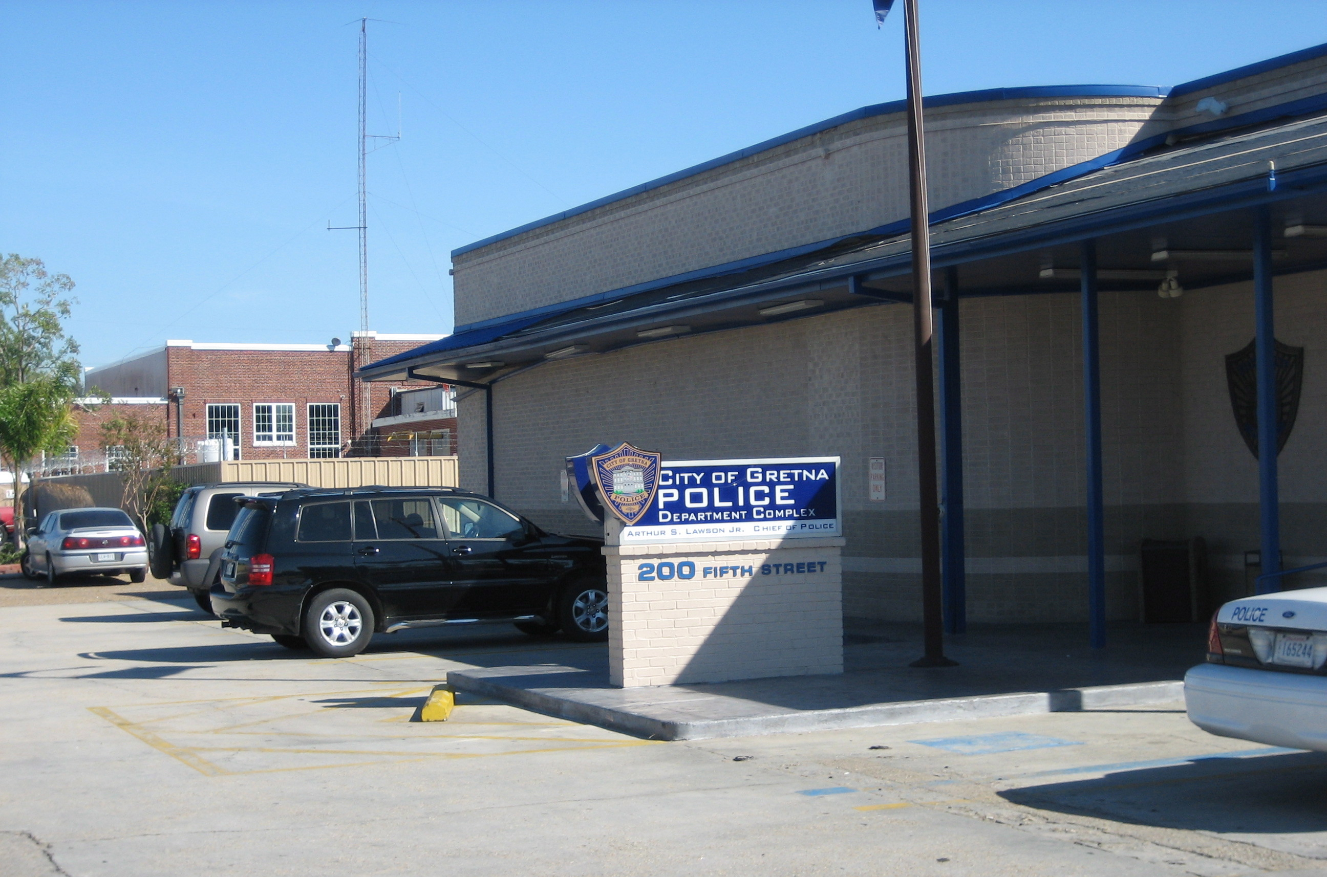 Gretna, Louisiana police station Photo by Infrogmation, November 2005